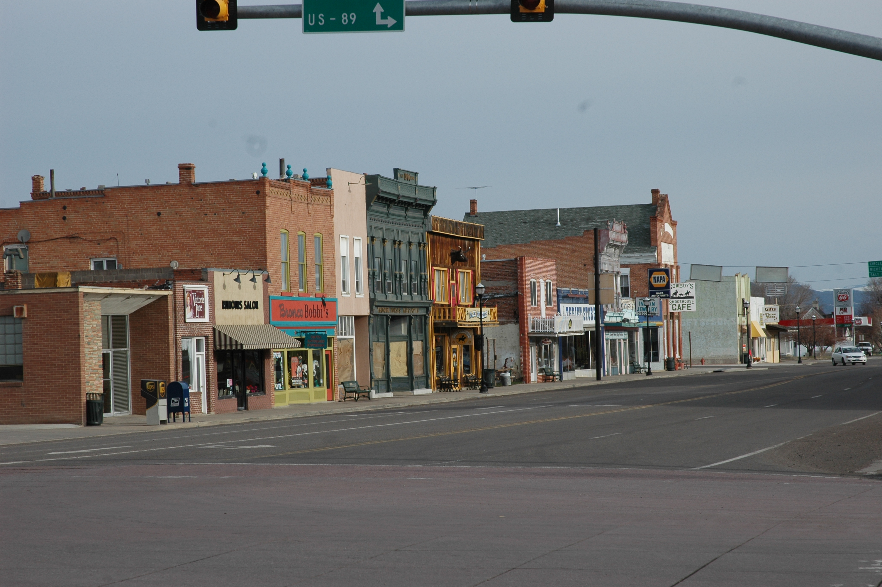 Northward view along Main Street in the Panguitch Historic District, Panguitch, Utah, United States.